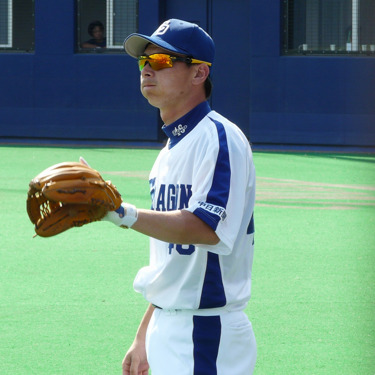 CD-Tatsuro-Iwasaki20110908